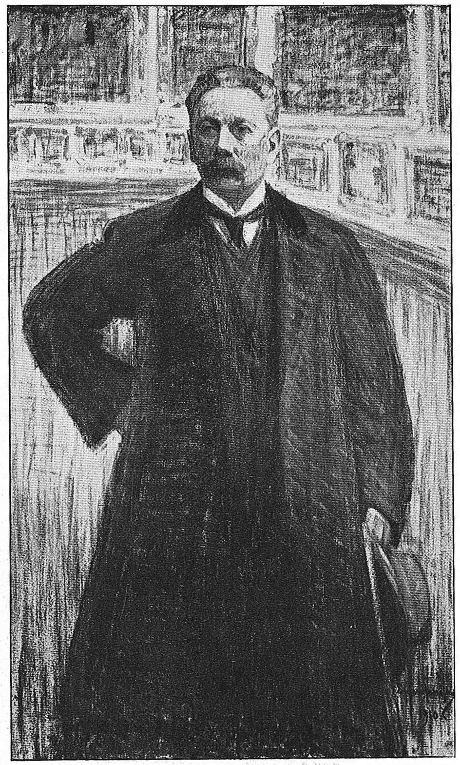 Author and theatrical manager Tor Hedberg (1862-1931) as painted by Eugène Jansson.